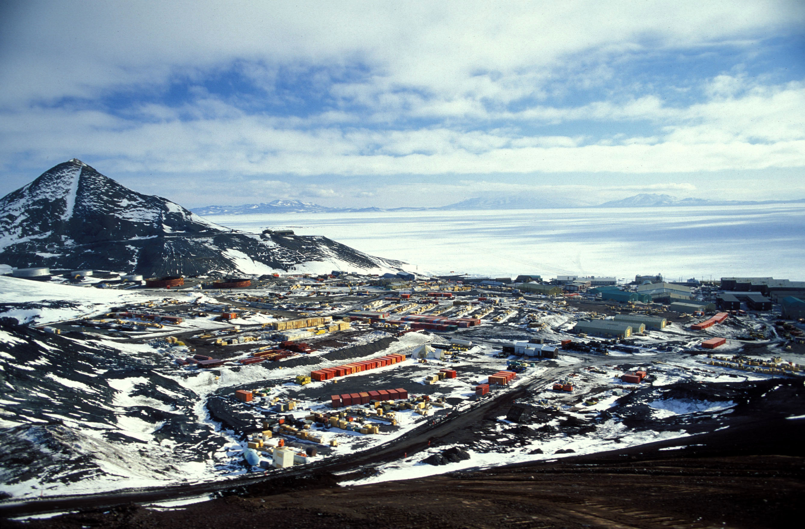 View on McMurdo Station (of USA), Antarctica; frozen Ross Sea in the background